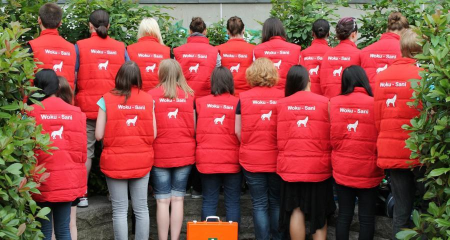 Woku-Sanis